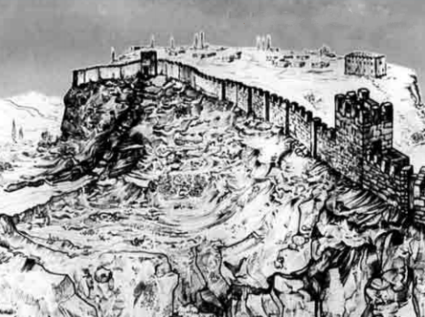 Calxanqala